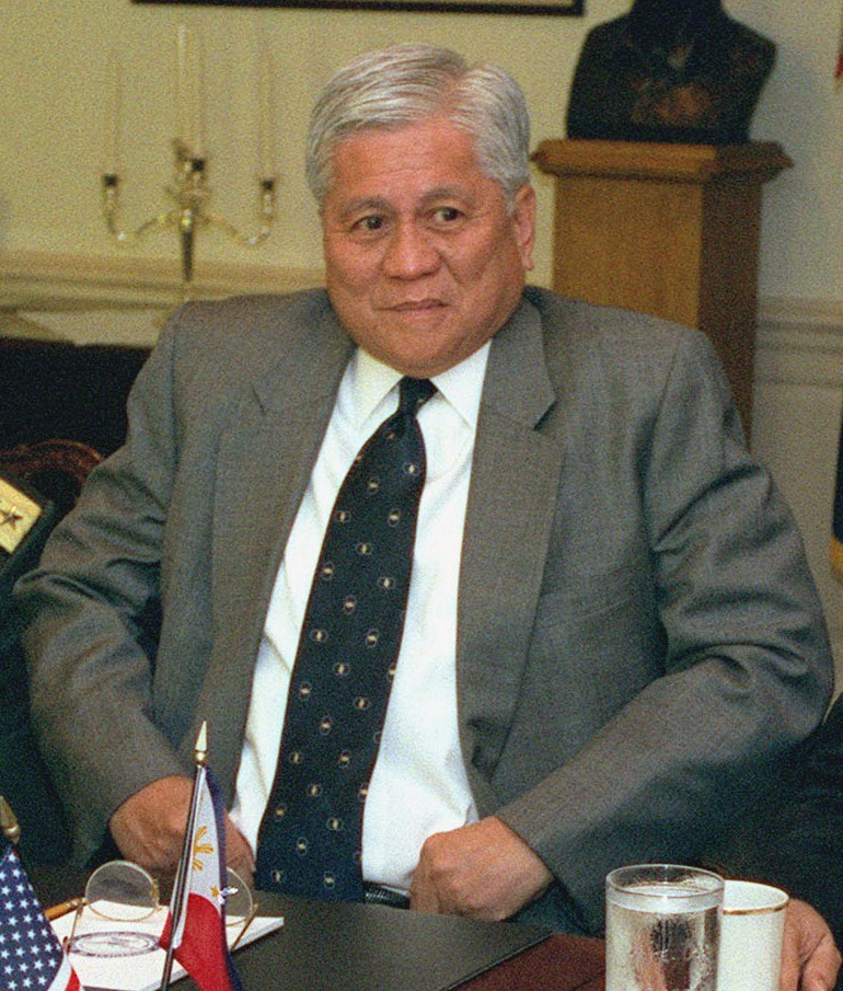 Ambassador to the United States Albert Del Rosario during talks of Philippine Minister of National Defense Angelo Reyes with U.S. Secretary of Defense Donald H. Rumsfeld and Chairman of the Joint Chiefs of Staff Gen. Richard B. Myers, U.S. Air Force, in the Pentagon on Aug. 12, 2002.